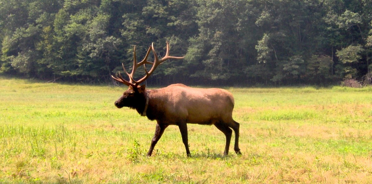 Elk grazing in Cataloochee, in the Great Smoky Mountains of North Carolina. Elk were reintroduced into the Smokies in February of 2001, when 25 elk were moved from Land Between the Lakes in Kentucky to Cataloochee.